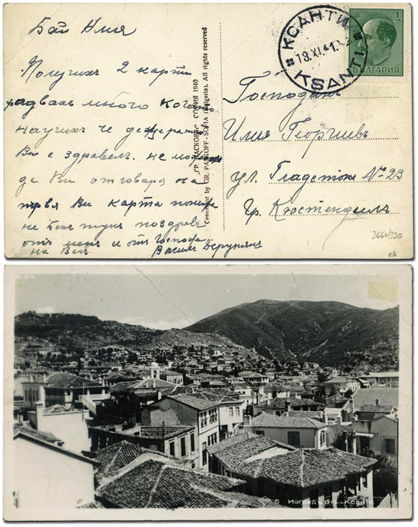 Postcard from Xanti during bulgarian occupation, 1941